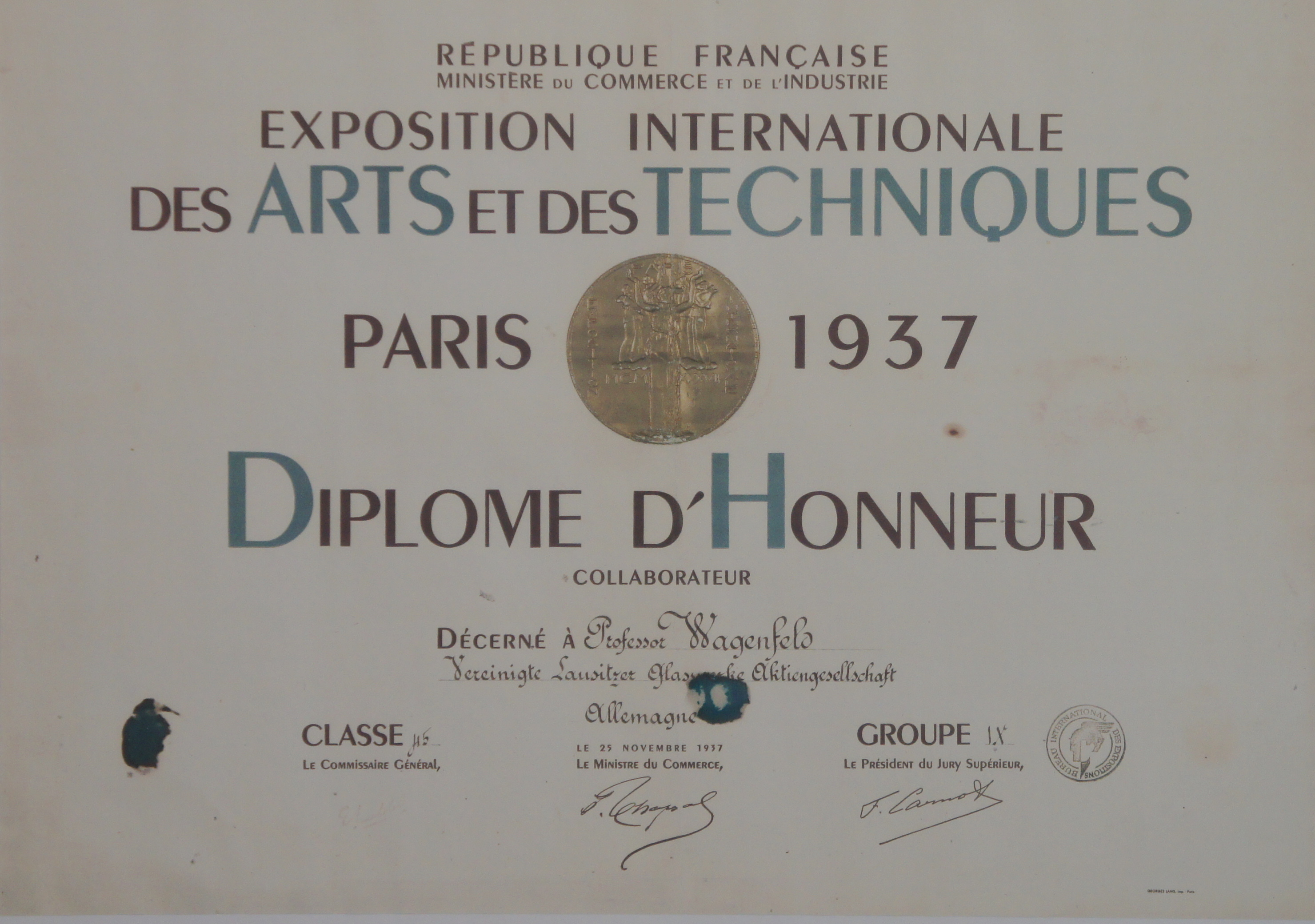 Certificate awarding the gold medal of the Paris 1937 World Exposition to Wilhelm Wagenfeld.